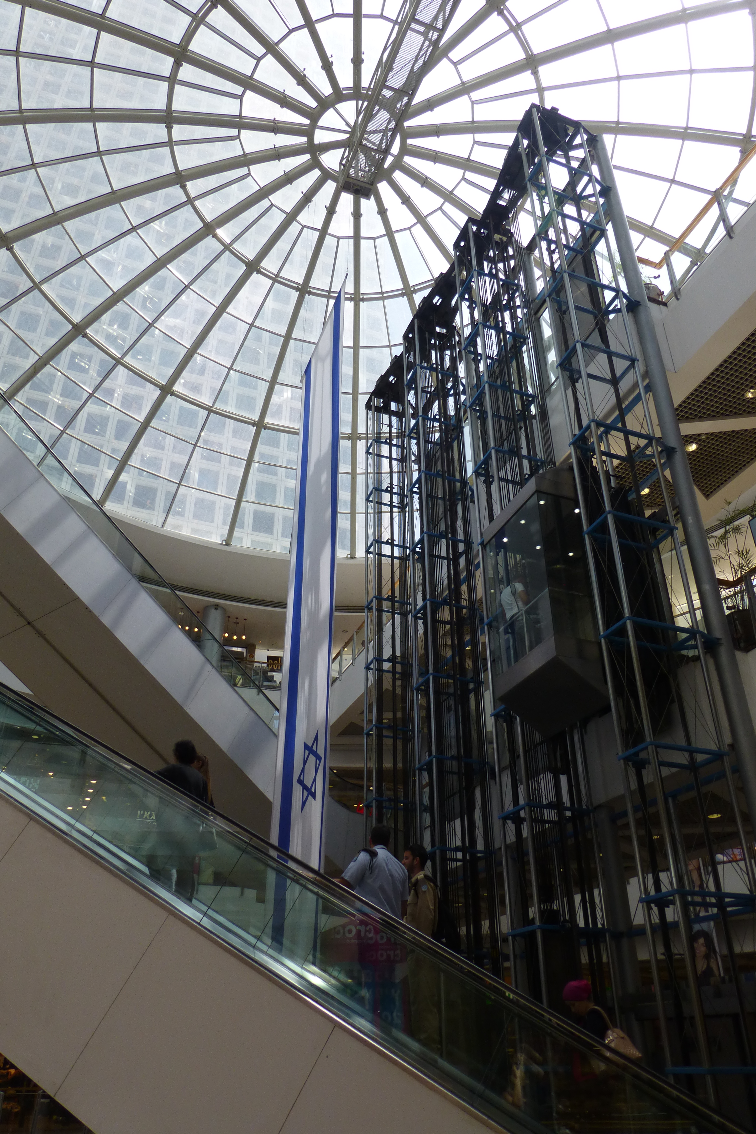 Azriely Towers